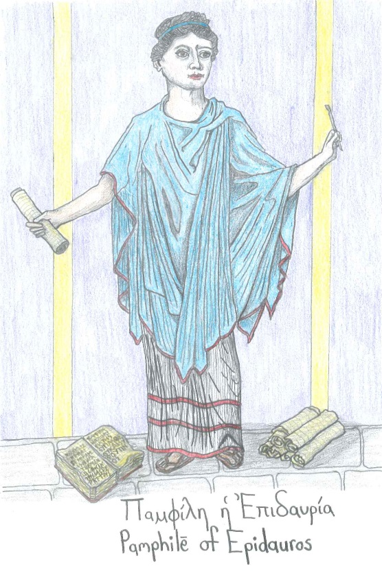 This is an imaginative illustration of the first-century AD Greek historian Pamphile of Epidauros, showing her with a hairstyle and style of clothing typical of the early imperial period, holding a scroll and a writing utensil with an open codex and bundle of scrolls at her feet. The writing on the codex, although not really legible, is from the beginning of the Tractatus de Mulieribus Claris in Bello (Treatise on Women Famous in War), which may have been written by her. The scrolls are intended to represent her lost work Historical Commentaries. She is in a house with her back to a wall, since she is a woman and ancient Greek women were expected to remain within the home.